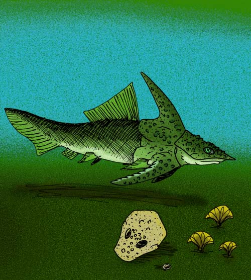 My reconstruction of the basal placoderm, Brindabellaspis stensioi, of Early Devonian Australia (c) Stanton F. Fink